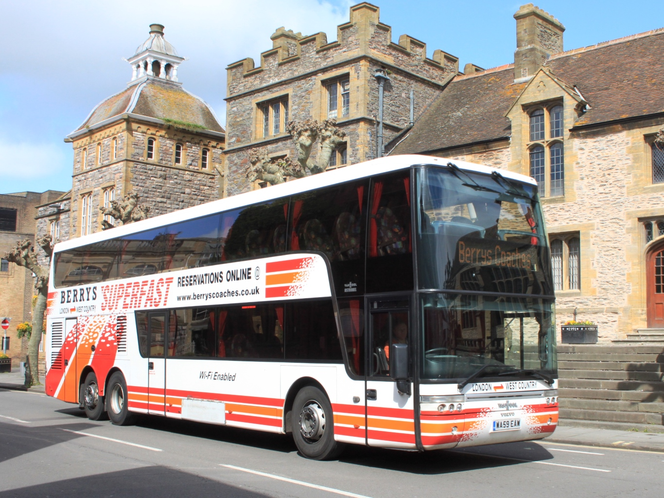 A Van Hool Astrobel double-deck coach (registration WA59EAW) used by Berry's on their Superfast service to London is seen in Corporation Street, in Taunton, Somerset. The coach is a Volvo B12B with Van Hool T9 Astrobel double-deck body, registration number WA59EAW.